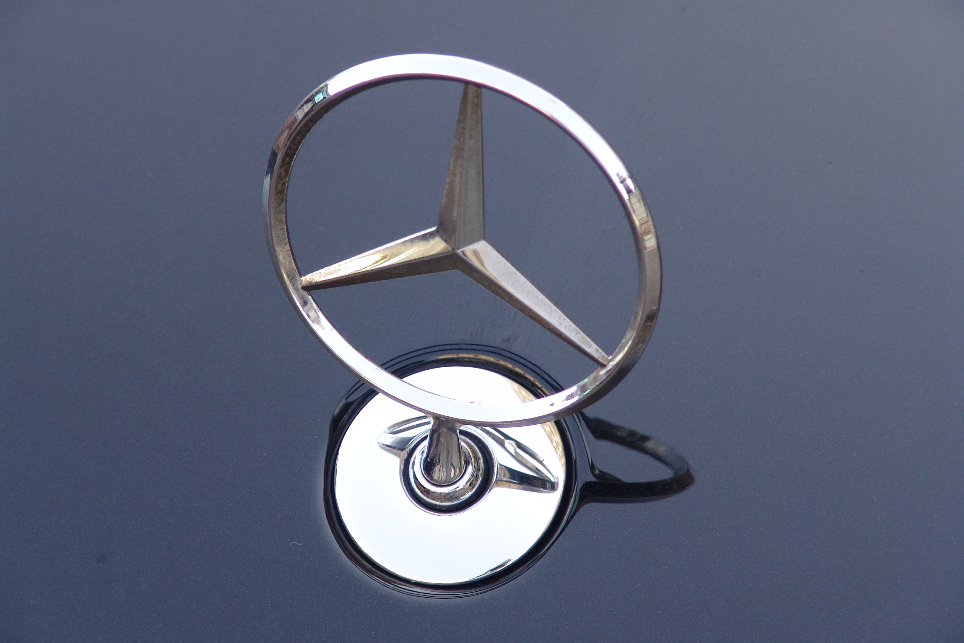 the Mercedes symbol